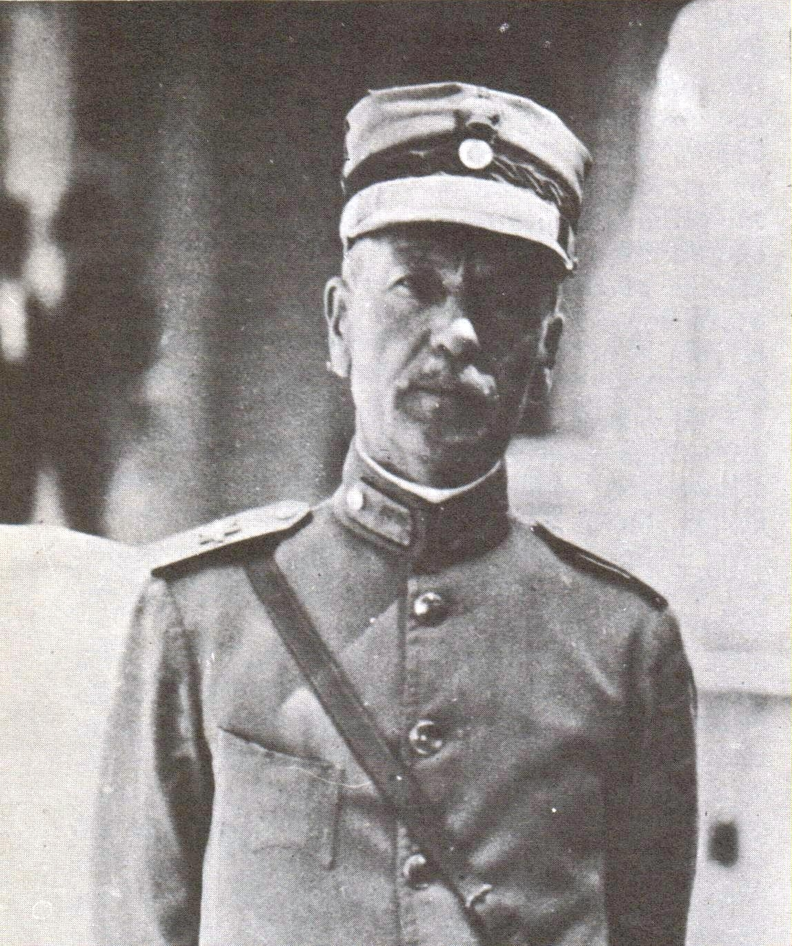 Greek general Georgios Polymenakos, here as Major General, ca. 1920